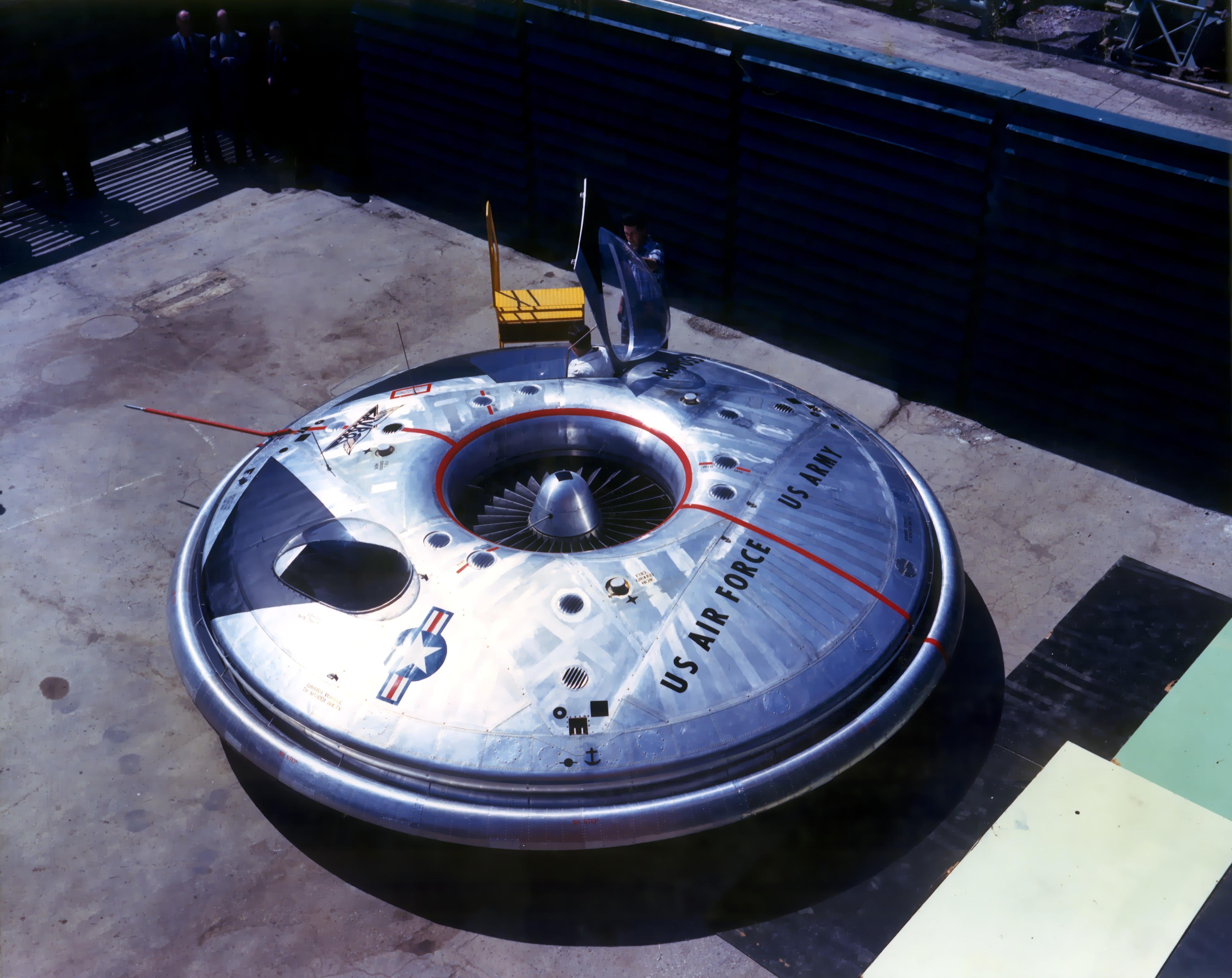 The Avrocar S/N 58-7055 (marked AV-7055) on its rollout. Image from the book "Avrocar: Canada’s Flying Saucer, 2001"